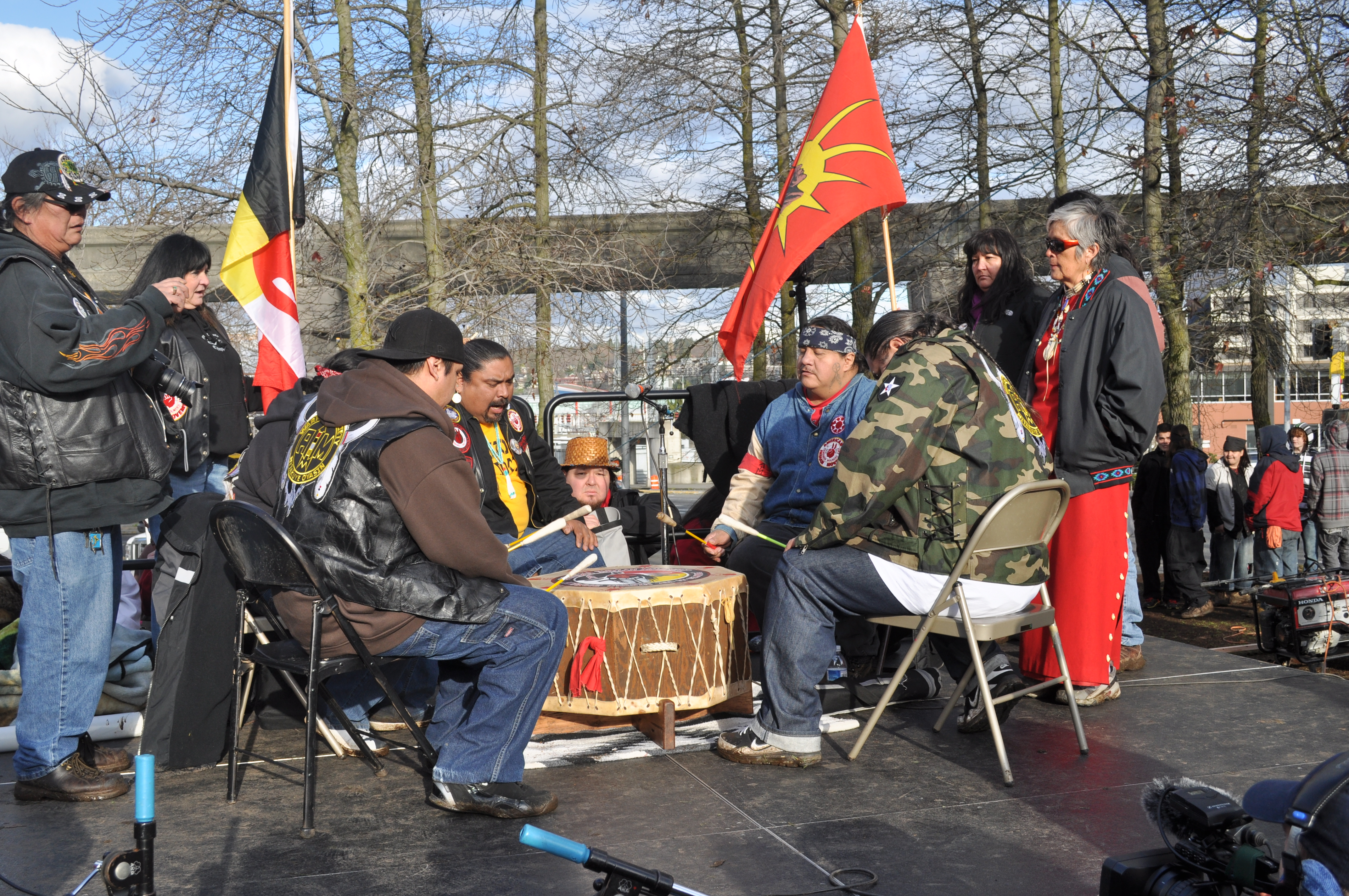 Members of Warrior Society Mitakuye Oyasin, AIM (American Indian Movement) drumming and singing at the raising of the John T. Williams Memorial Totem Pole, Seattle Center, February 26, 2012. Other identifications would be welcome. Part of Flickr set Raising the John T. Williams Memorial Totem Pole by Joe Mabel.